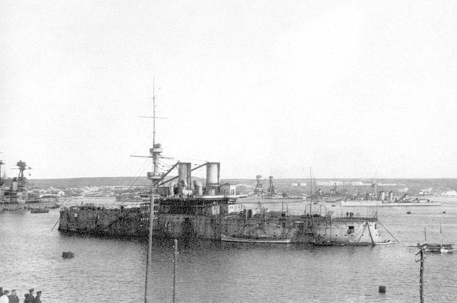 Battleship Georgiy Pobedonosets in Sevastopol.